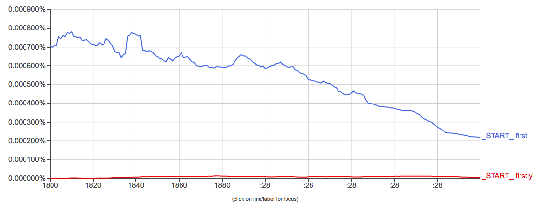 Use of uncapitalized words "first" and "firstly" at the beginnings of sentences over the past 200 years, according to Google Books Ngram Viewer, 2012 English language corpus.[1] Note: Very different results are obtained from a query containing capitalized terms "First" and "Firstly" (as are more common at the beginnings of sentences)[2] or from a case-insensitive query.[3]